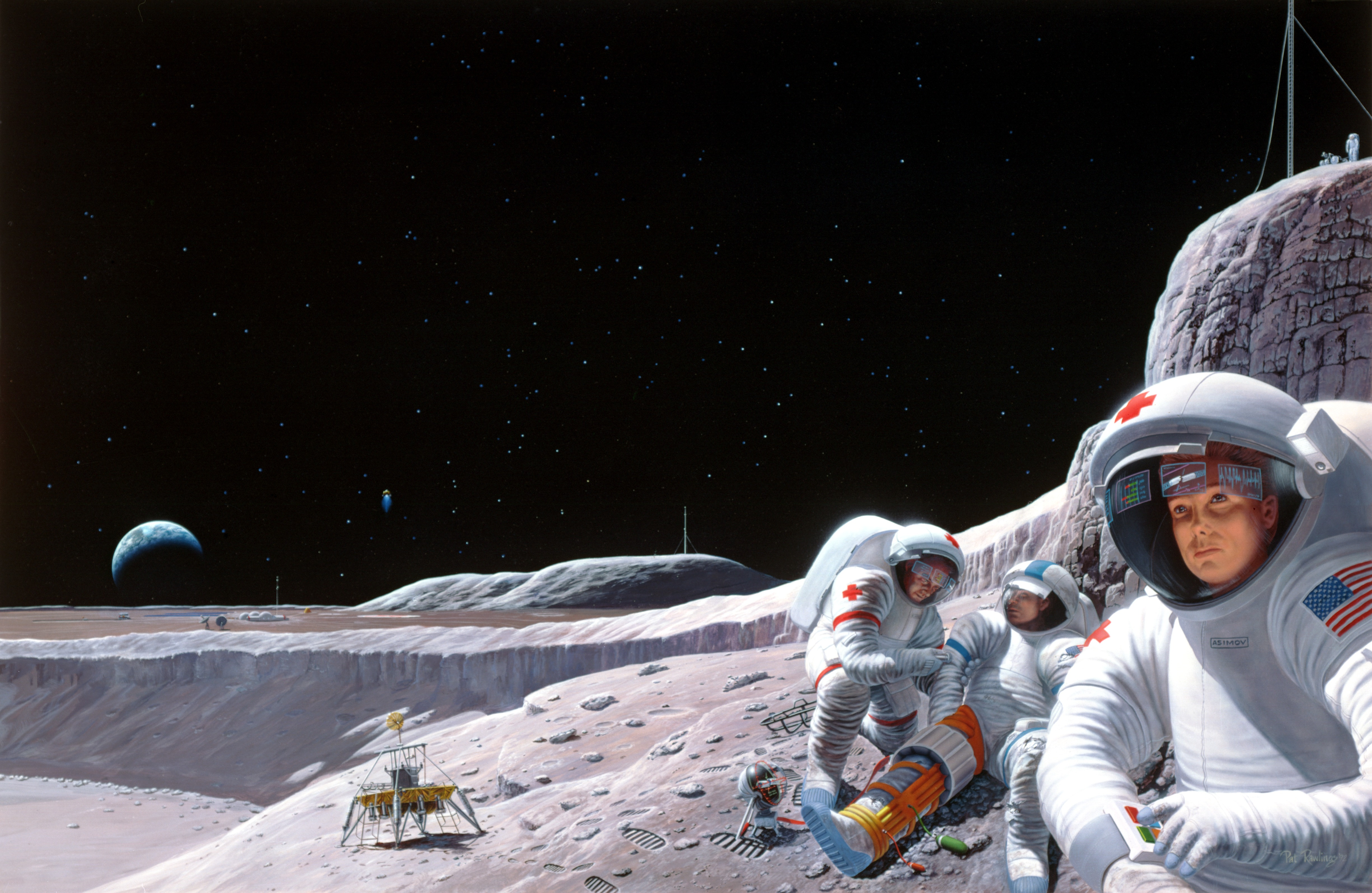 "Lunar pioneers will encounter hazards and crises requiring new emergency procedures. Here, an antenna installer fell over a 90-foot escarpment and fractured his right femur. Responding to this situation on a "medivac" hopper, two other lunar base crew members employ a portable CAT-scan device, a holographic display, and helmet-mounted heads-up displays to determine the severity of the injury. After an inflatable Thompson splint is placed on his leg, the semiconscious technician is transported back to the base strapped onto the side of the hopper. This image produced for NASA by Pat Rawlings (SAIC)."